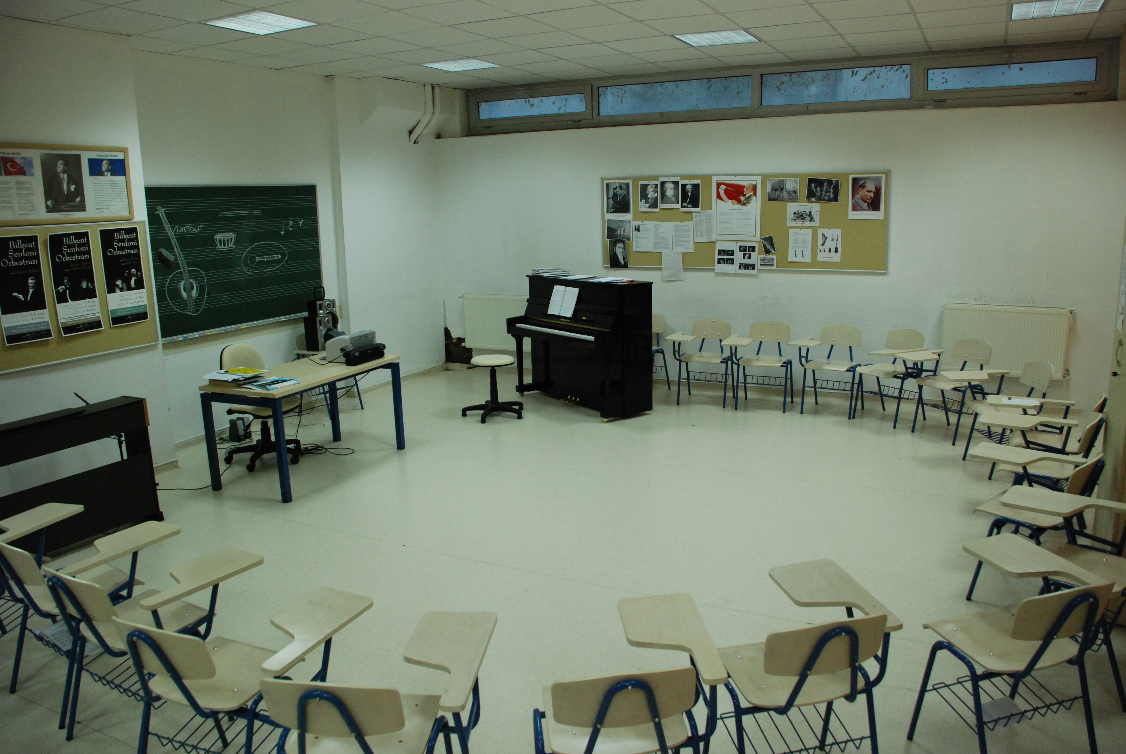 One of the Bilkent Erzurum's music classes.